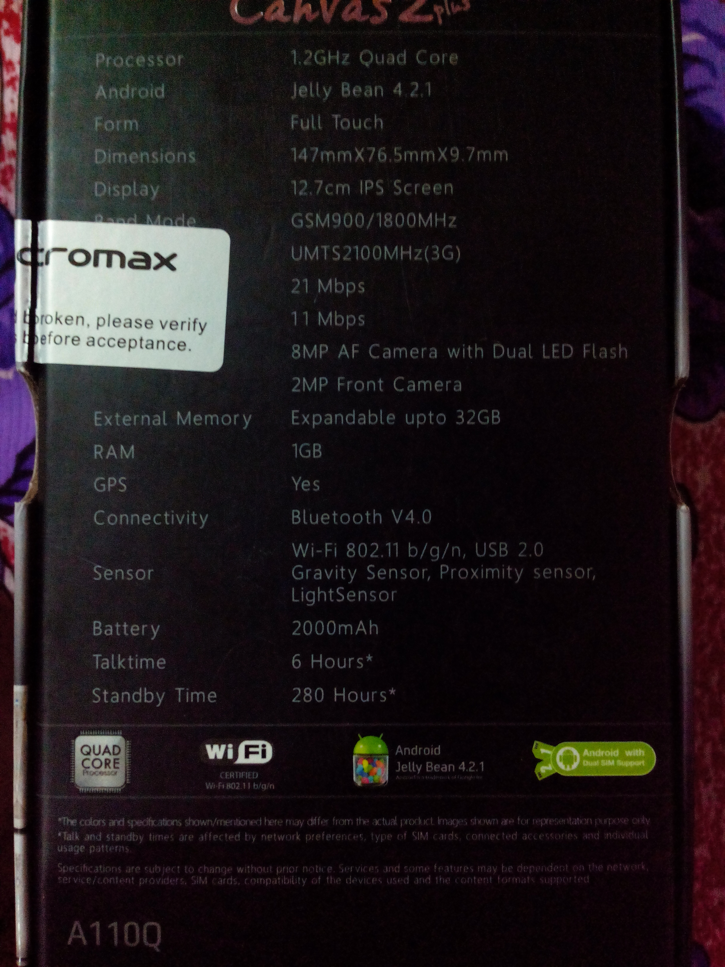 Micromax Canvas 2 Plus A110Q black box back cover